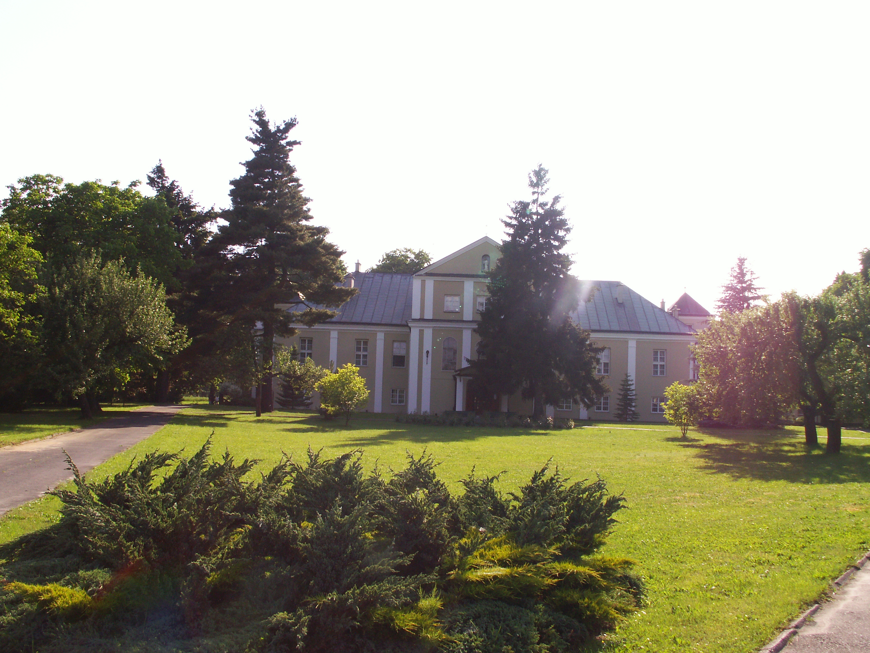 Łąka - palace